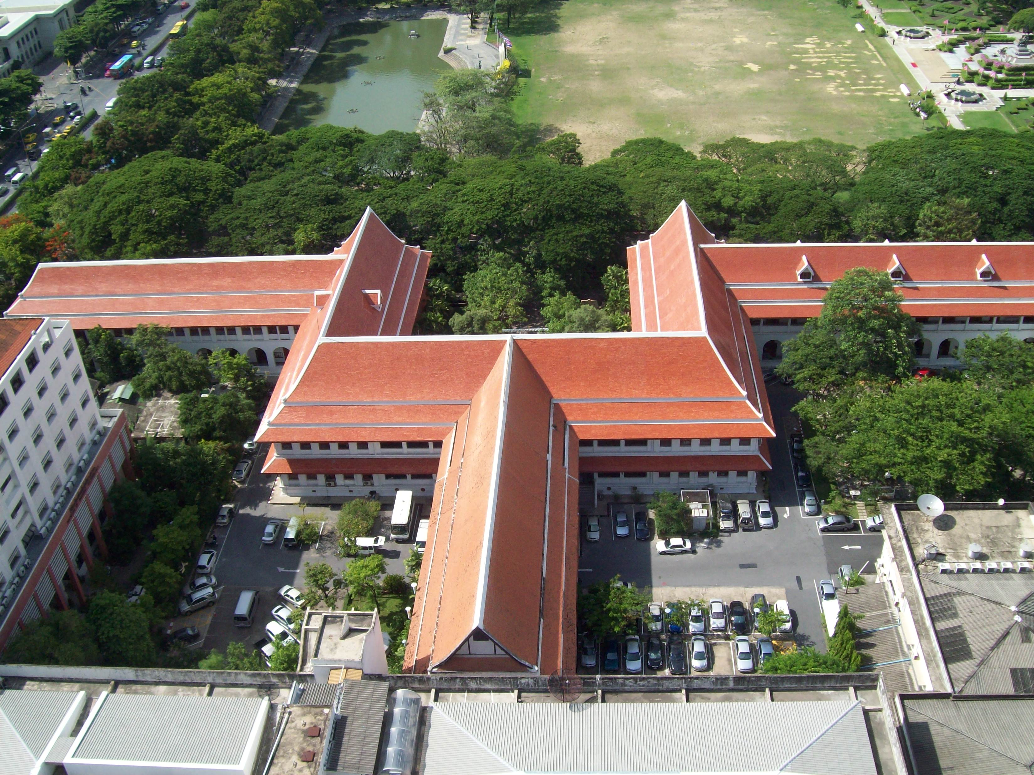 Aerial view of Biology I and Chemistry II building, Chulalongkorn University. Taken from 19th floor of Mahamakut Building.